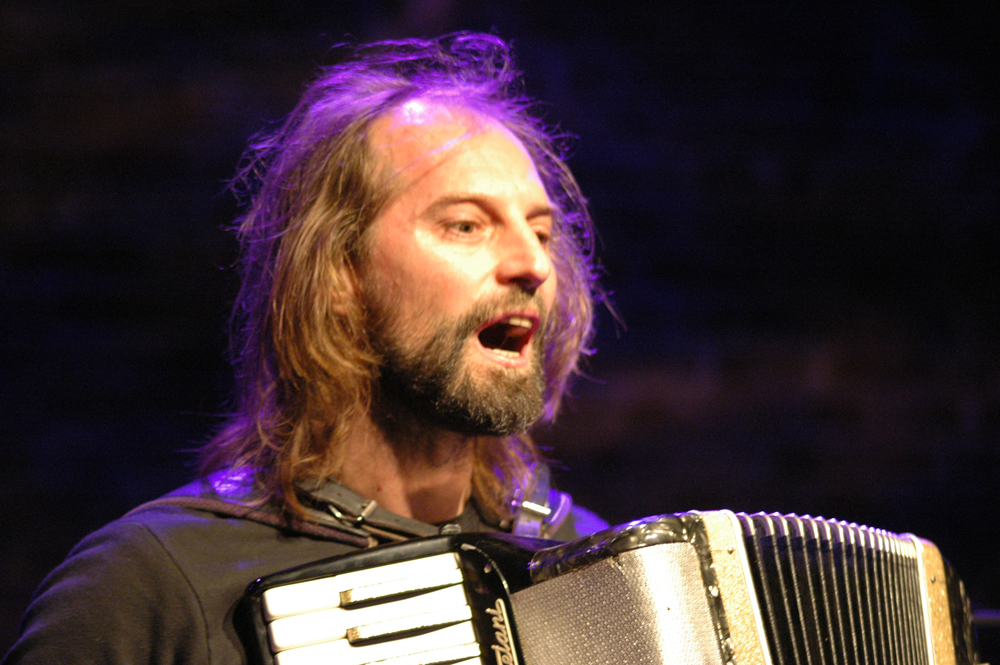 Argentine acordeon player Horacio Chango Spasiuk performing in Warszawa, Poland in March 2009.